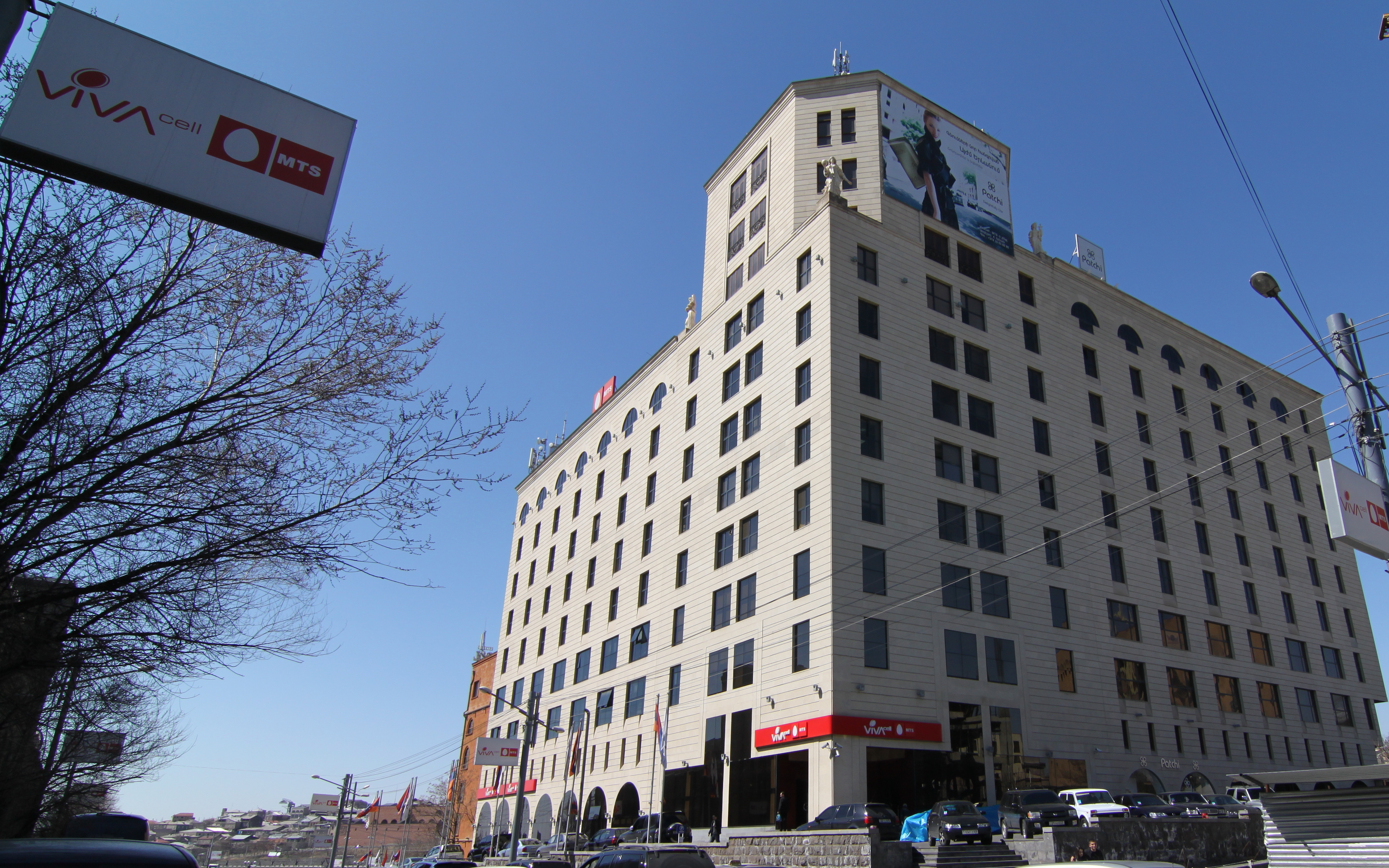 Headquarters of VivaCell MTS, an Armenian telecommunications operator, in Yerevan, Armenia.